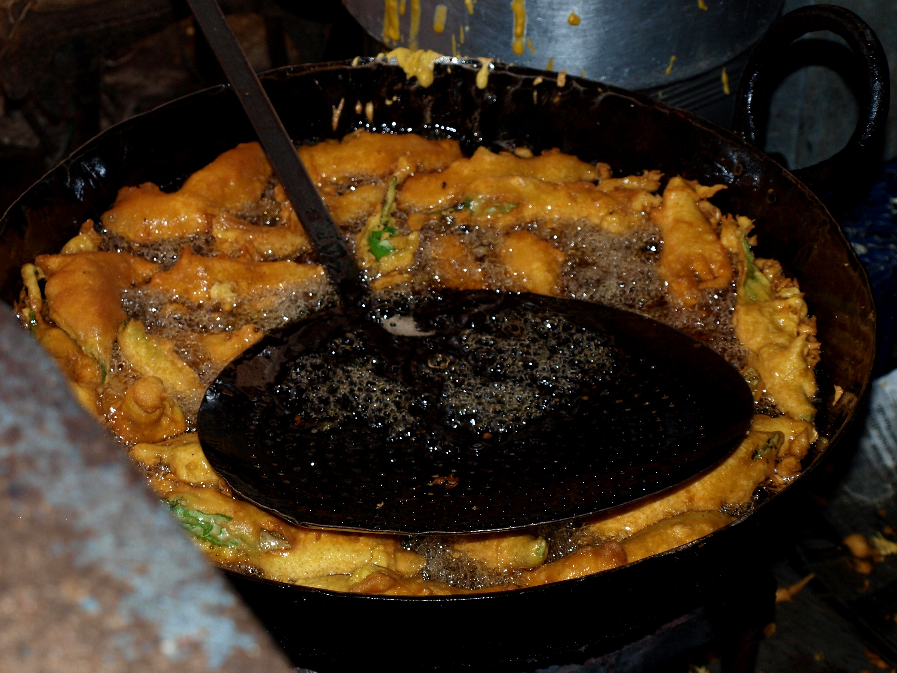 Deep fried chillies at Mapuçá, Goa.